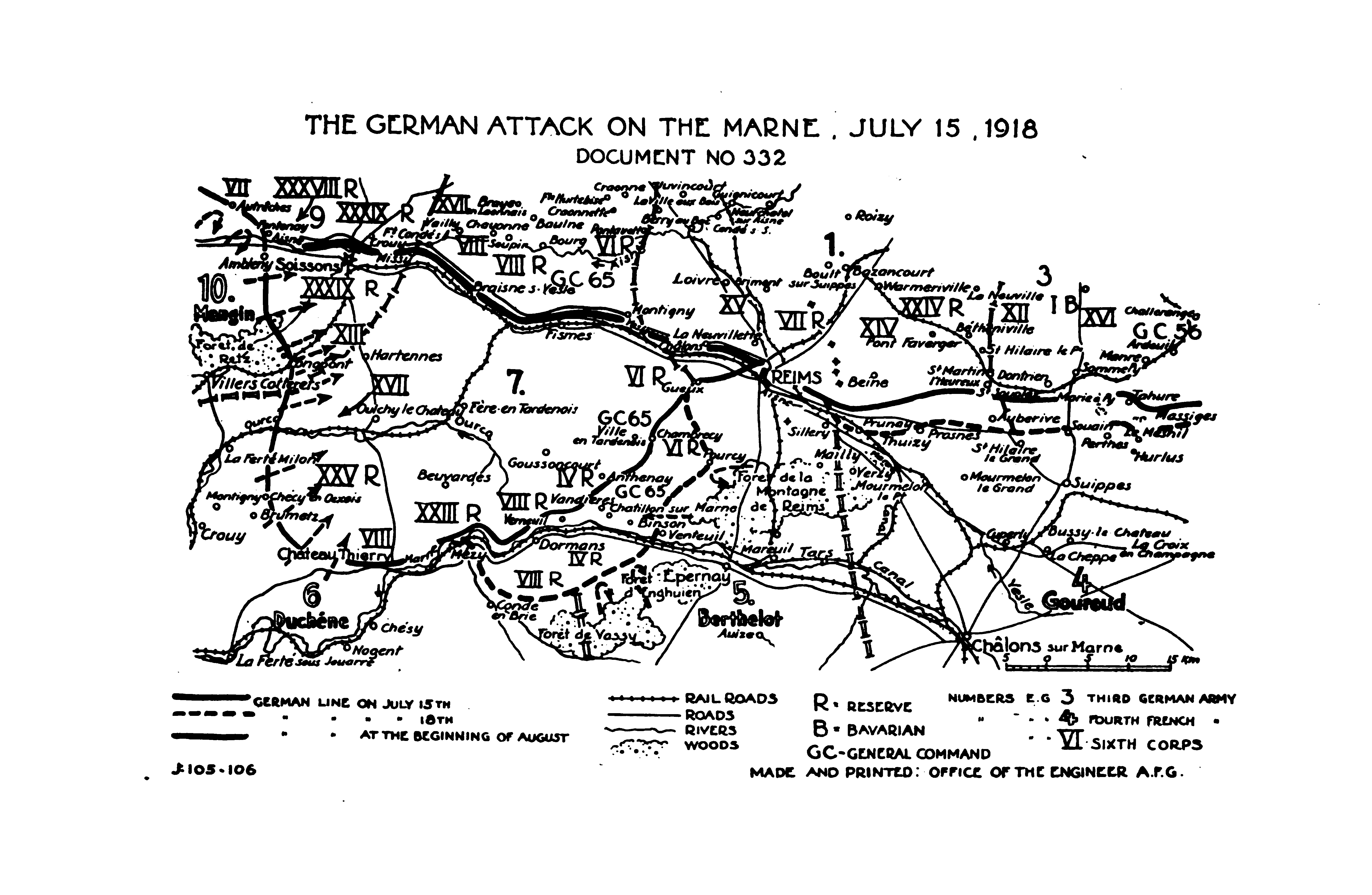 Disposition of German Forces for the final spring offensive, Marneschutz-Reims, 15 July 1918. Three days later the Allies counter-attack at Soissons began.